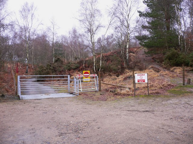 No entry to Longmoor Camp The picture was taken from managed access land.